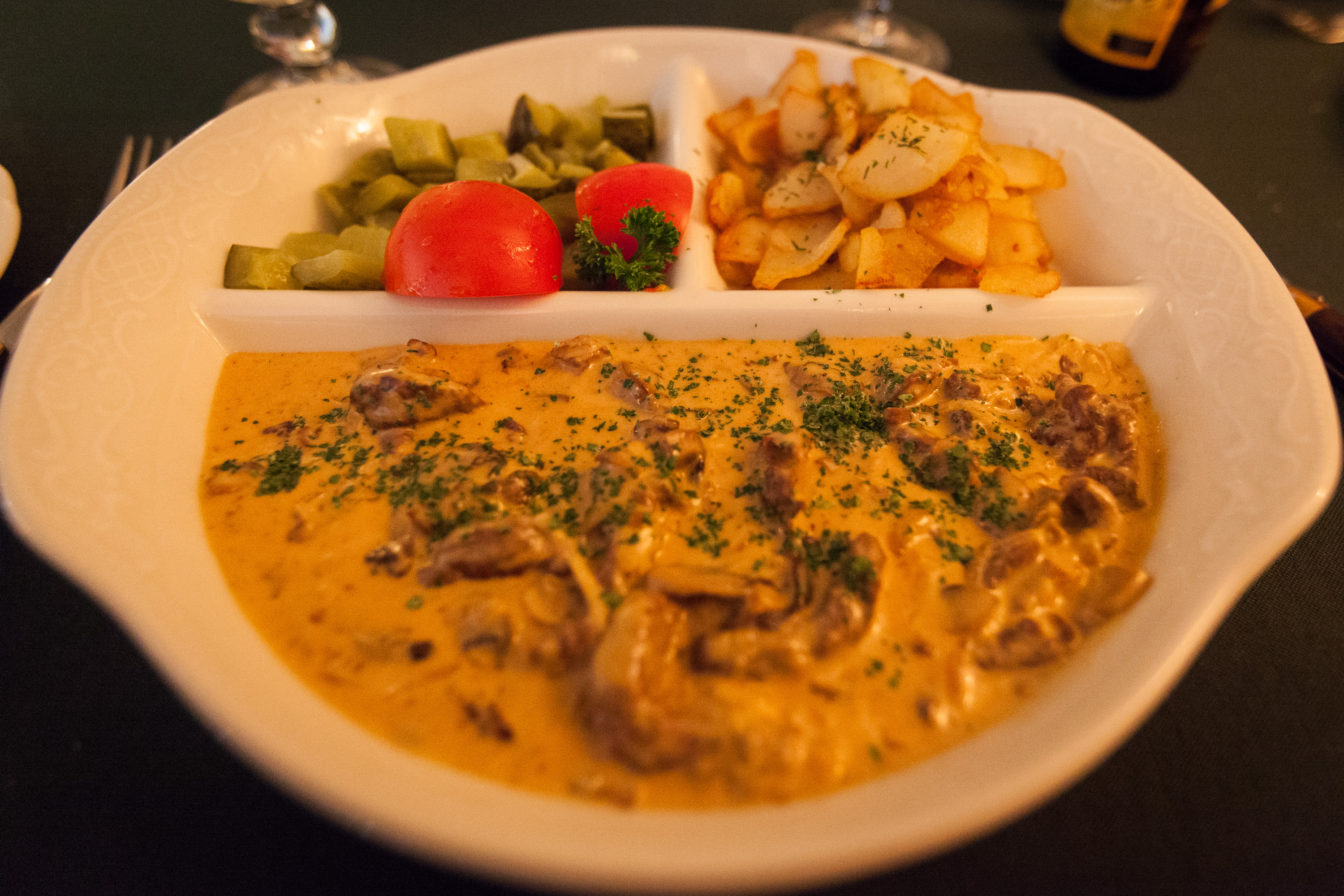 Bœuf Stroganoff, Moscow